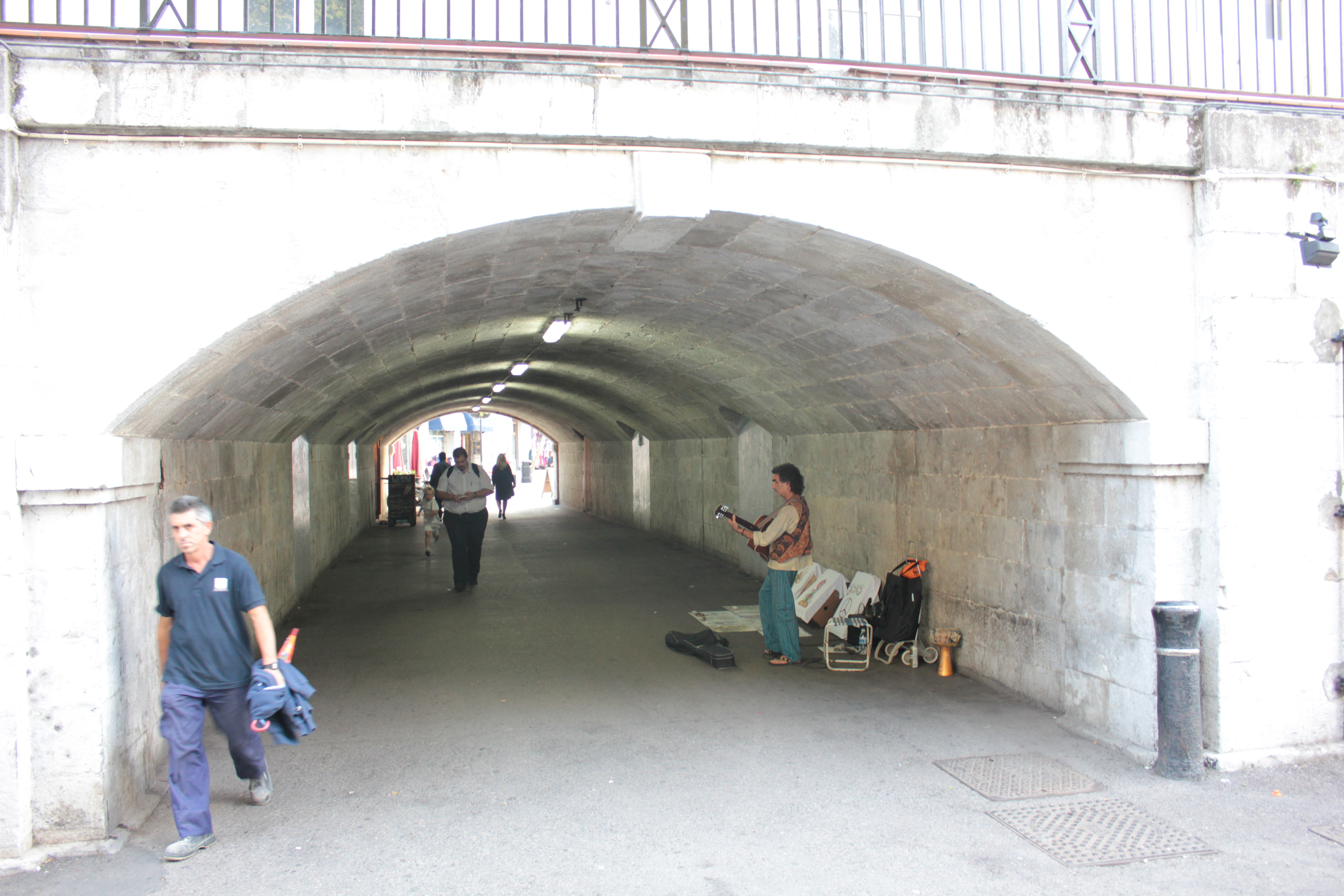 Entrance to Casemates Square, Gibraltar